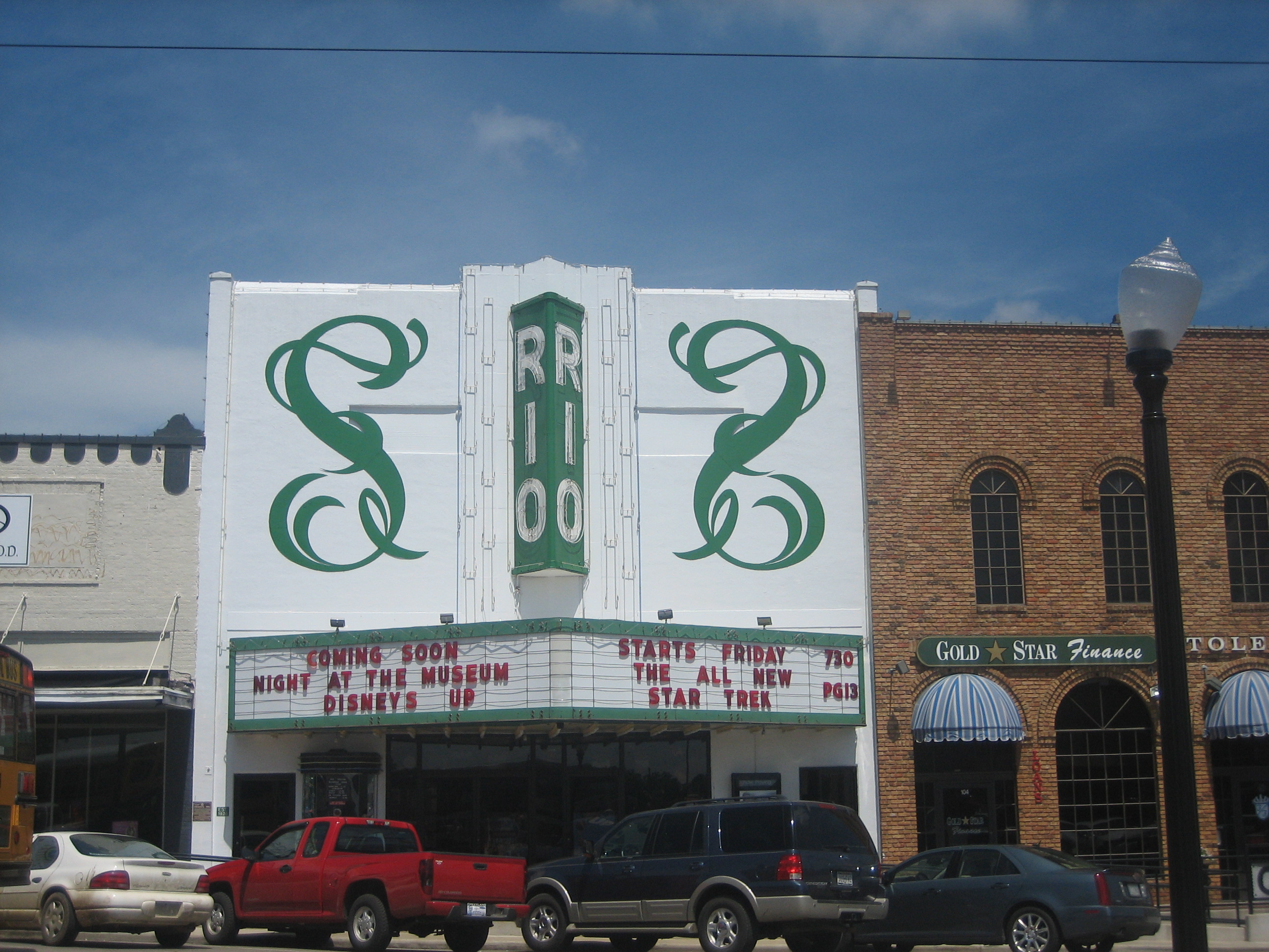 Rio cinema, 105 Nacogdoches Street, on the Center, Texas town/courthouse square (Texas State Highway 7)